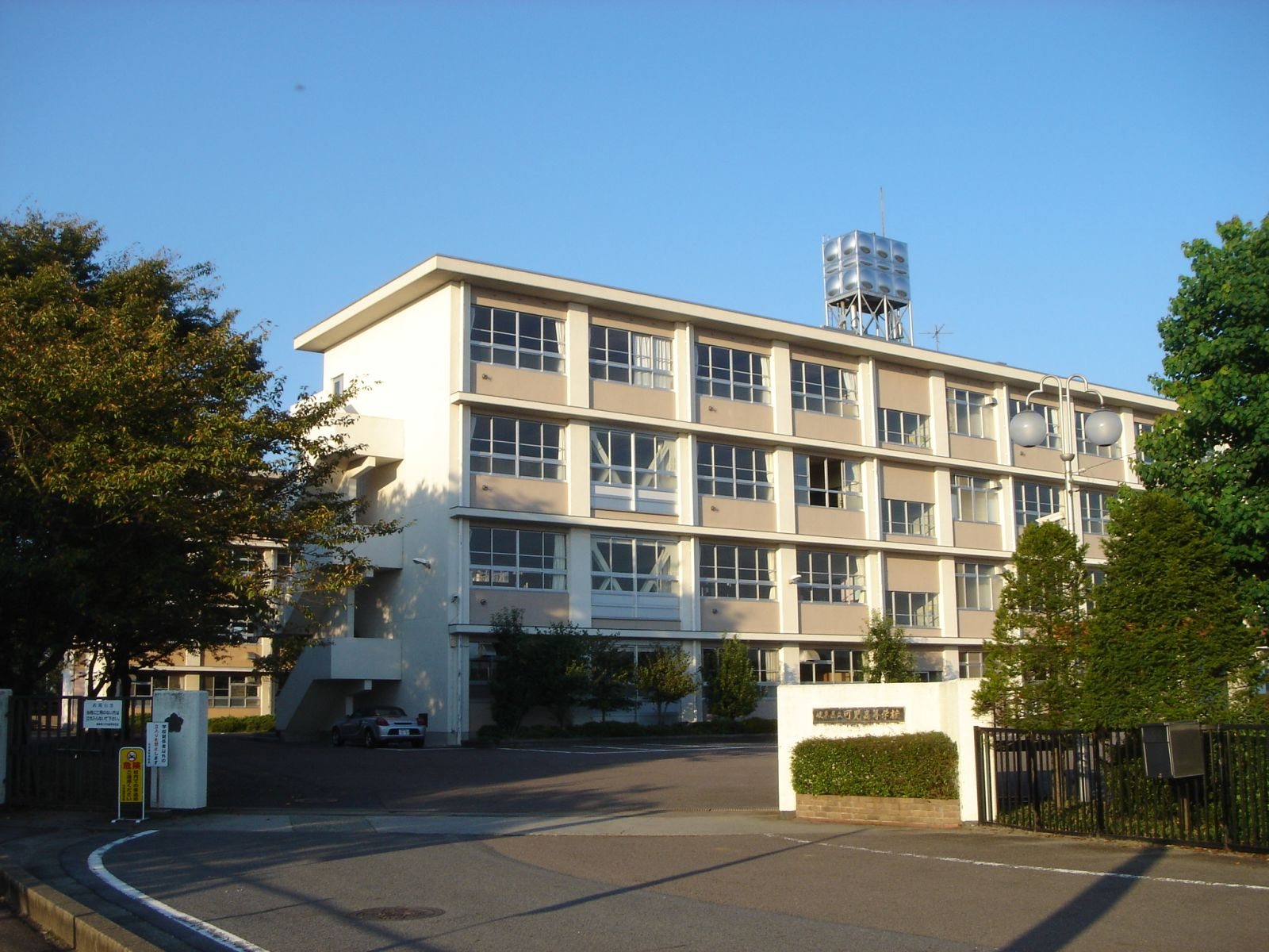 Gifu Prefectural Kani High school（岐阜県立可児高等学校）,Kani,Gifu,Japan(岐阜県可児市)で撮影。